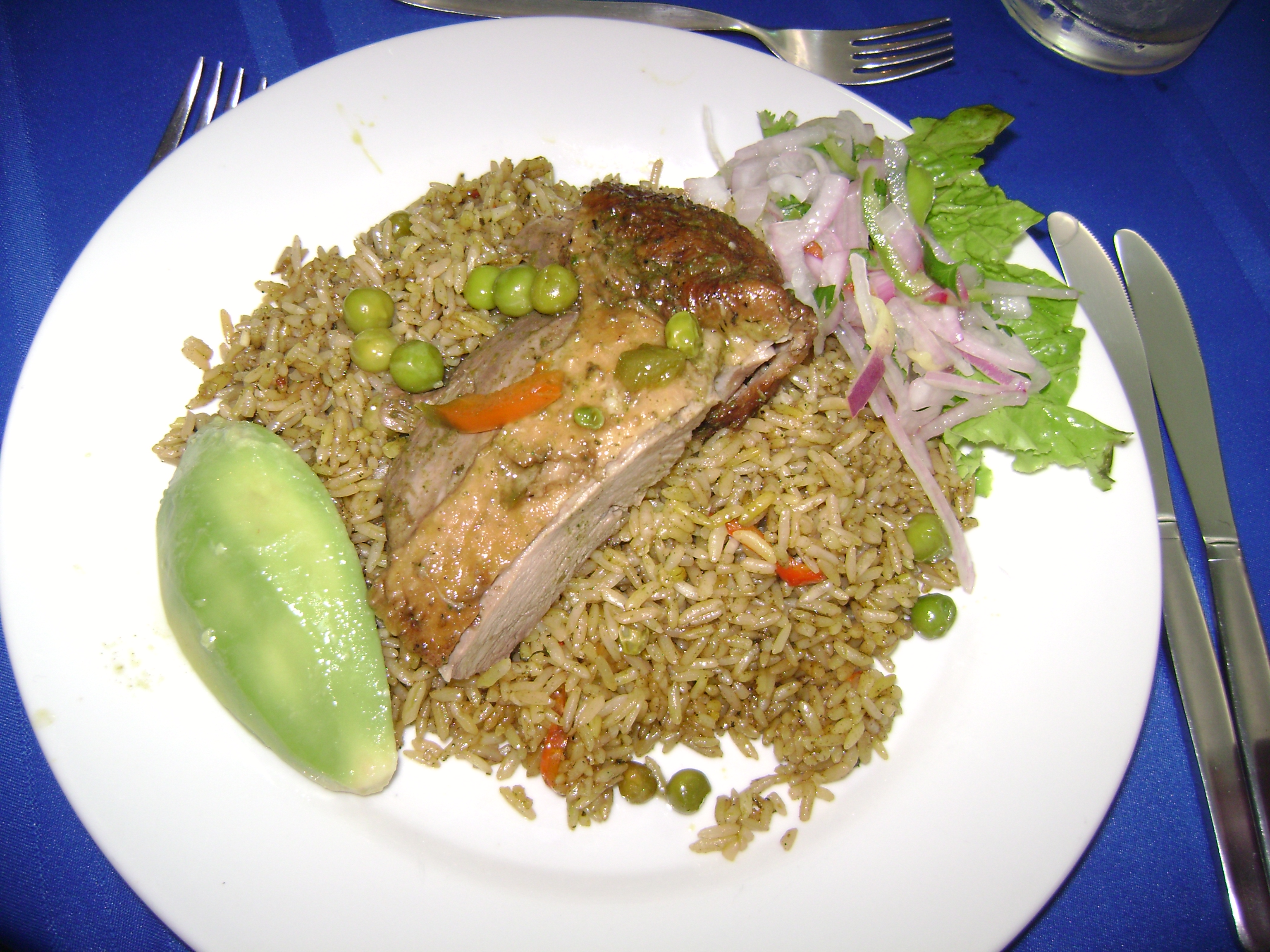 Arroz con pato (Rice with duck), made in the style of the cuisine of Chiclayo. Lambayeque, Perú.